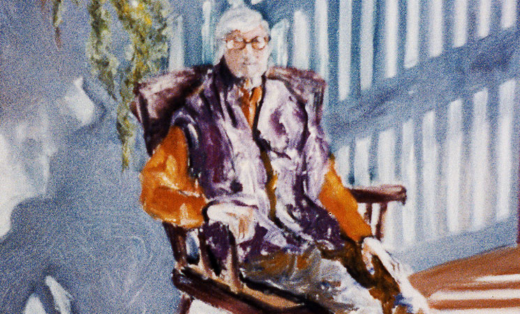 Photograph of a painting with the consent of the author.